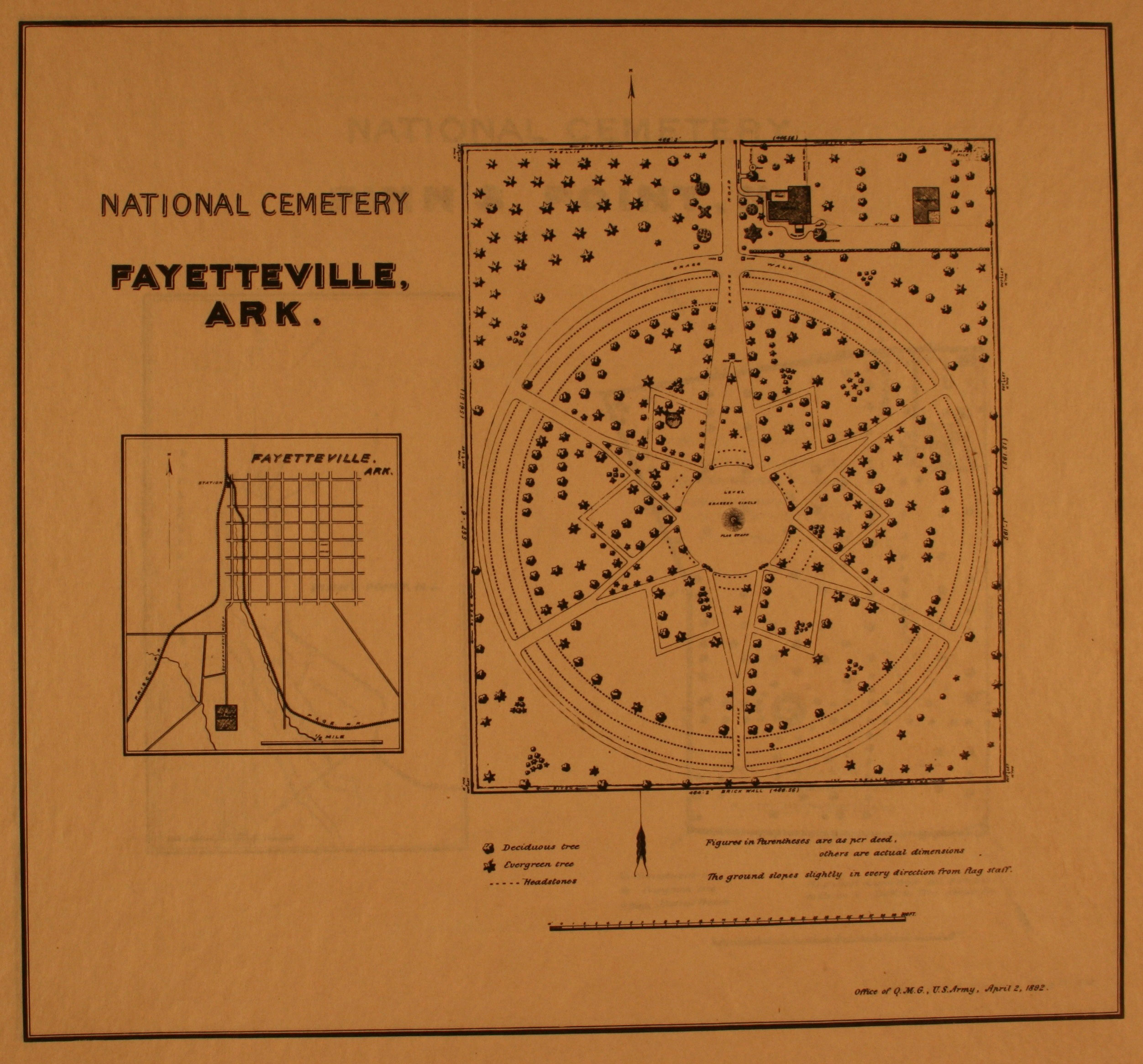 Picture of original layout of Fayetteville National Cemetery from Army Quartermaster General - 1892